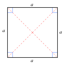 A square with its sides length, rect angles and diagonals